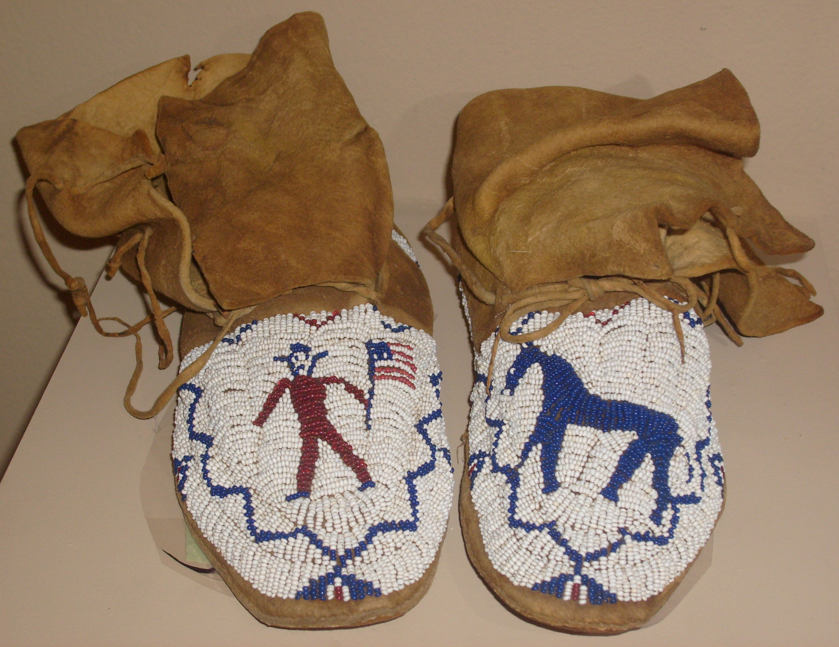 Beaded moccasins originally from the estate of Chief Washakie, Wind River Reservation (Shoshone), Wyoming, c.1900. Displayed at Museum of Man, San Diego, California.